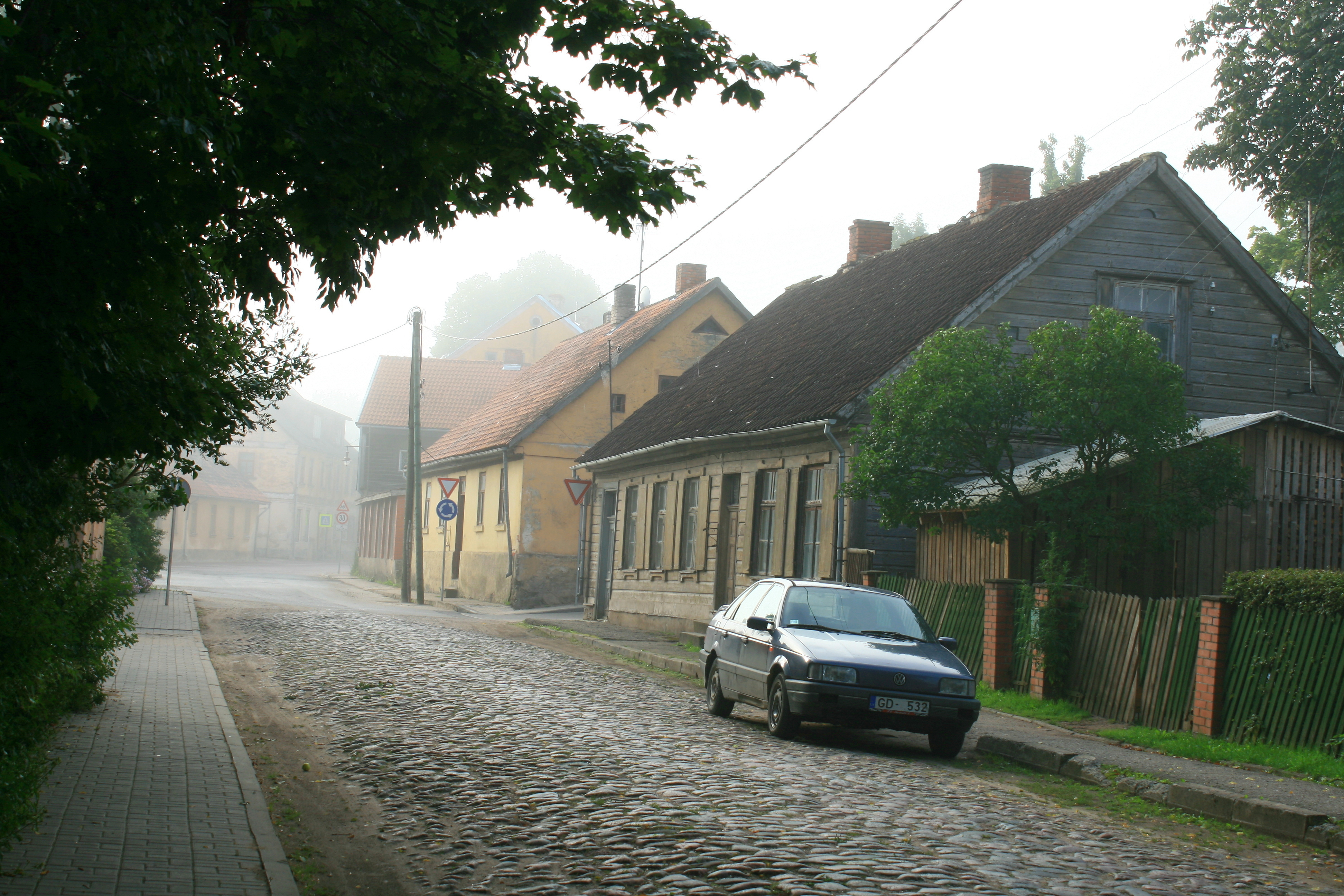 Ventspils Street in Kuldīga (road P108)